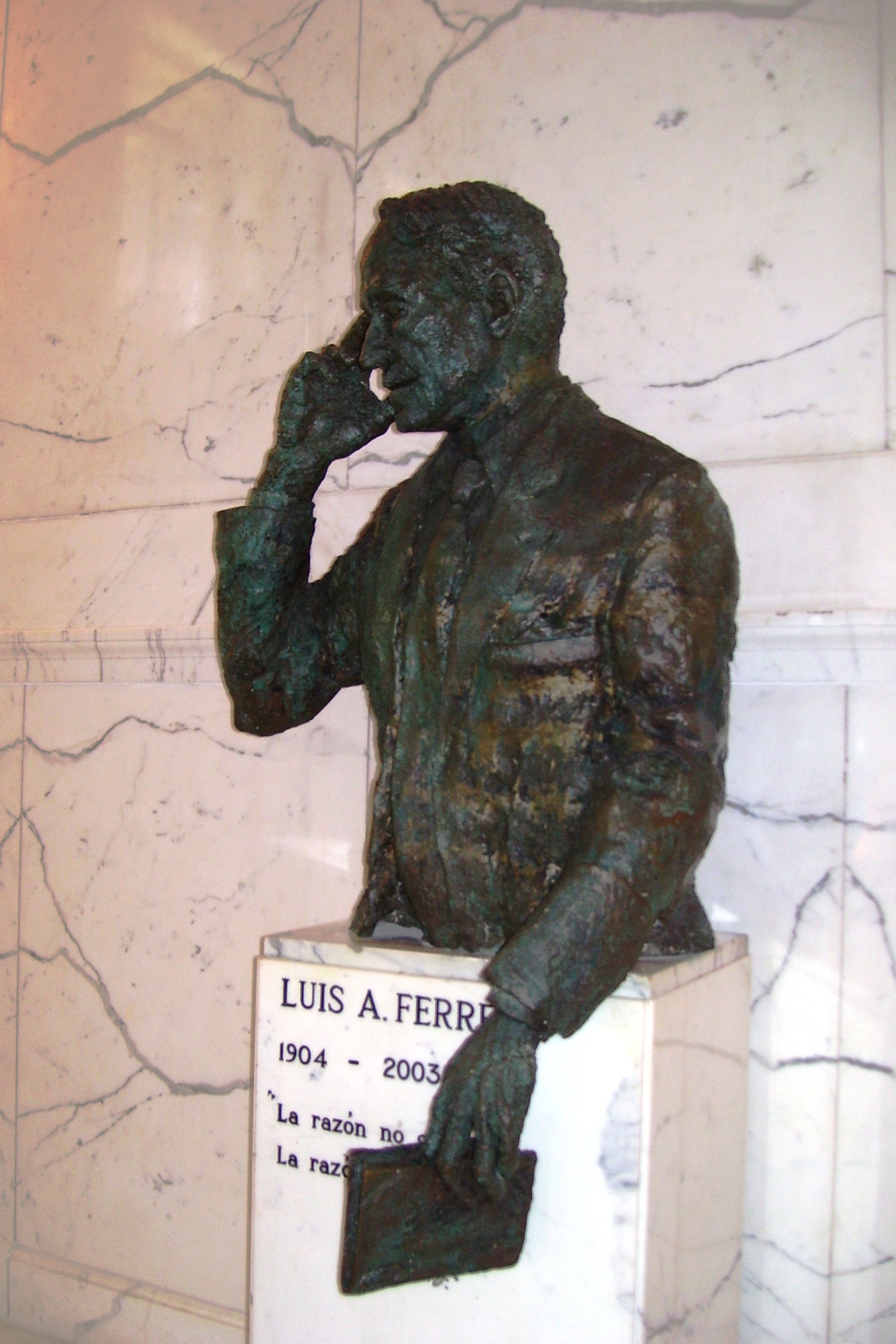 Sculpture of Luis A. Ferré inside Capitolio de Puerto Rico